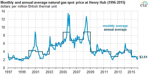 Natural gas spot prices in 2015 at the Henry Hub in Louisiana, a national benchmark, averaged $2.61 per million British thermal unit (MMBtu), the lowest annual average level since 1999. Daily prices fell below $2/MMBtu this year for the first time since 2012. Henry Hub spot prices began the year relatively low and fell throughout 2015, as production and storage inventories hit record levels and fourth-quarter temperatures were much warmer than normal. Publication date: January 5, 2016